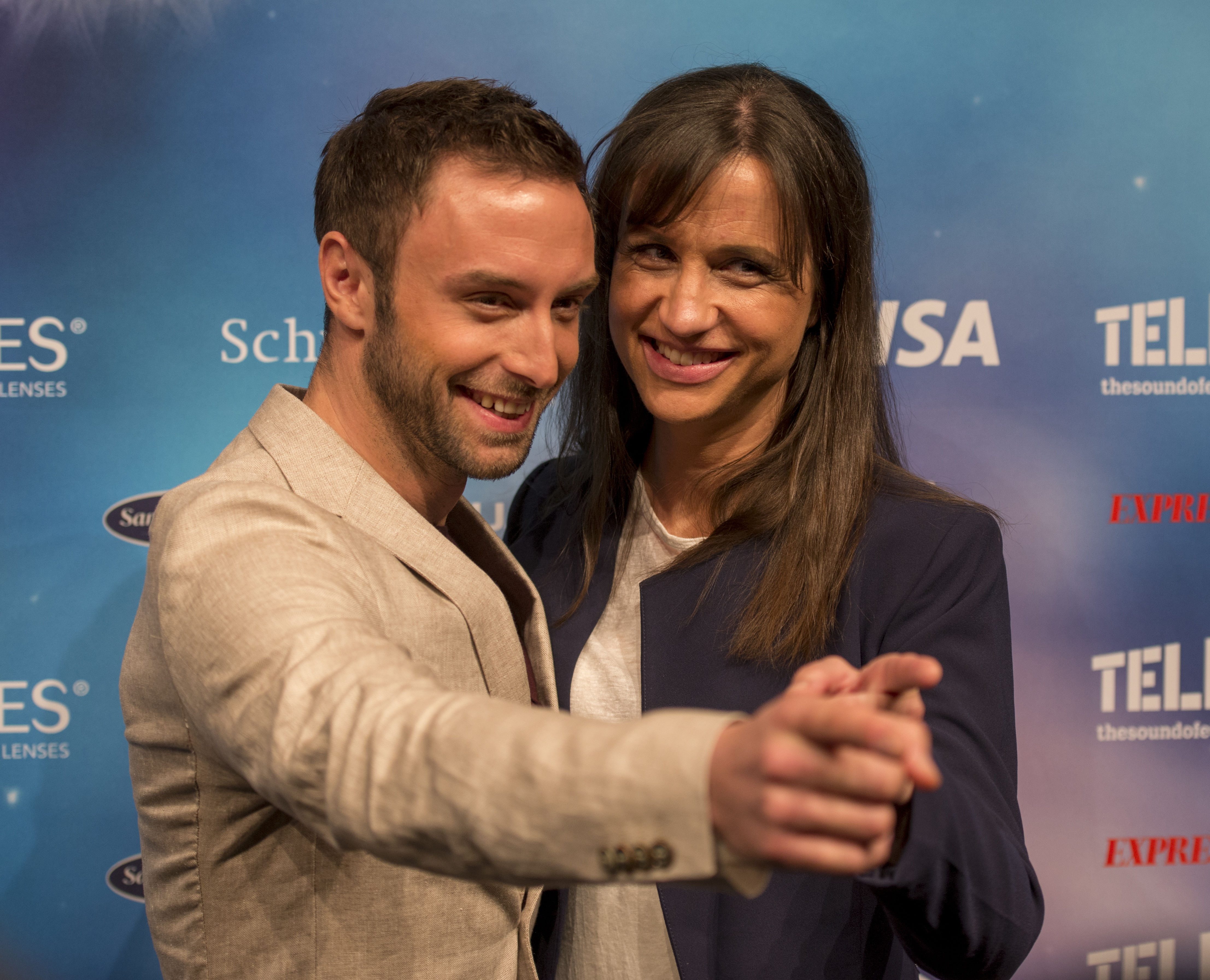 Måns Zelmerlöw & Petra Mede at a press conference during the Eurovision Song Contest 2016 in Stockholm. (Help translate this text)